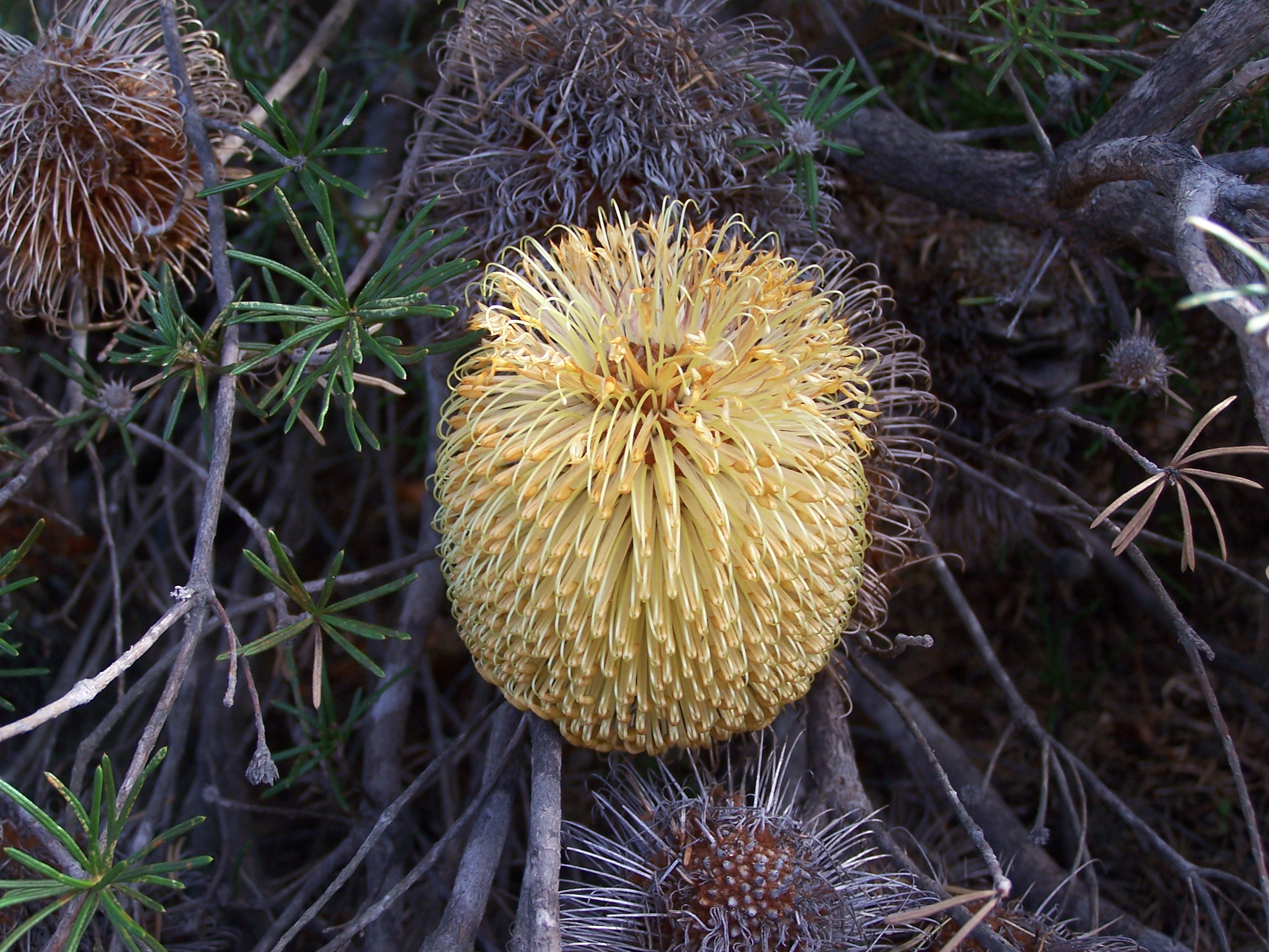 Banksia telmatiaea, taken at the Yule Brook Reserve